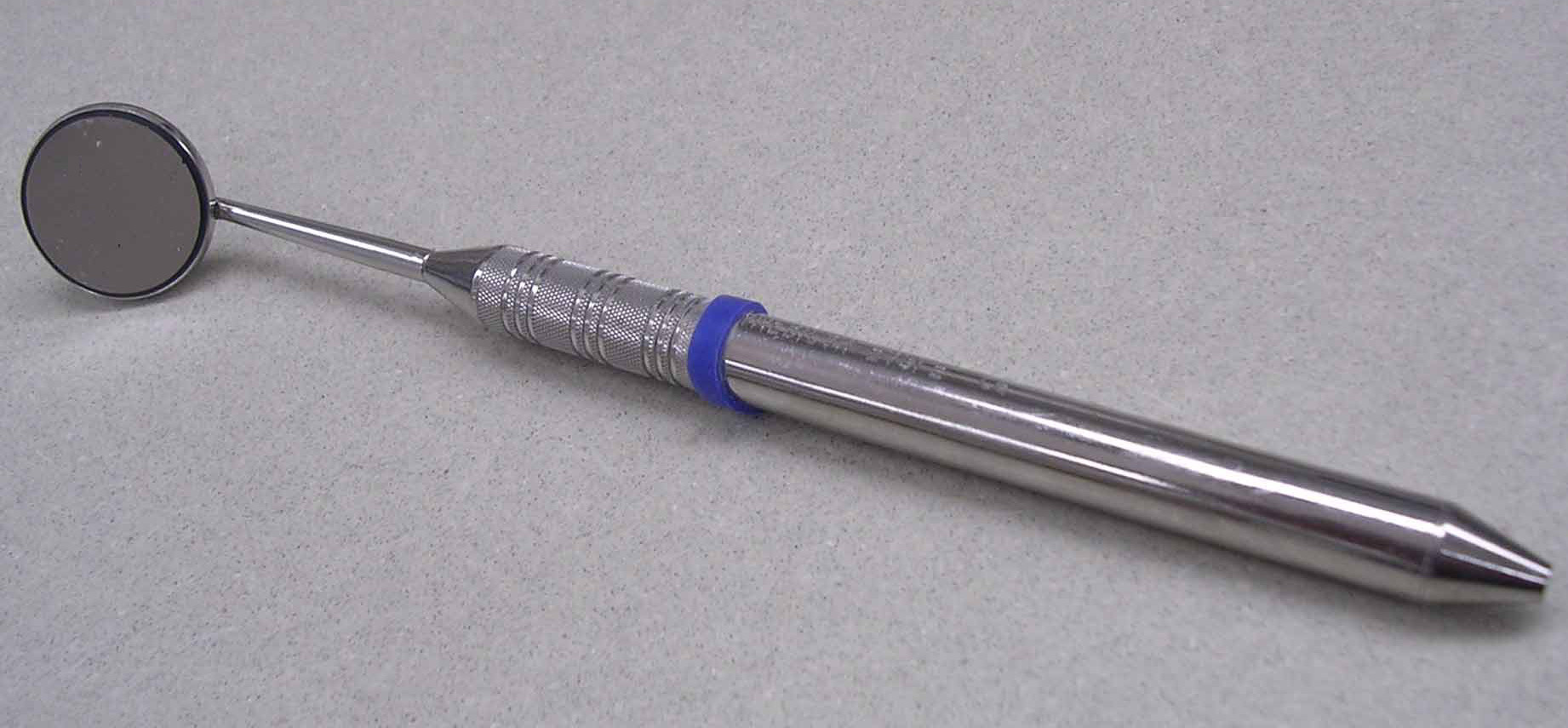 A dental mirror (mouth mirror) used in dentistry. Taken on July 24, 2004 at the University of Tennessee Health Science Center: College of Dentistry in Memphis. Source: Photo taken by Dozenist